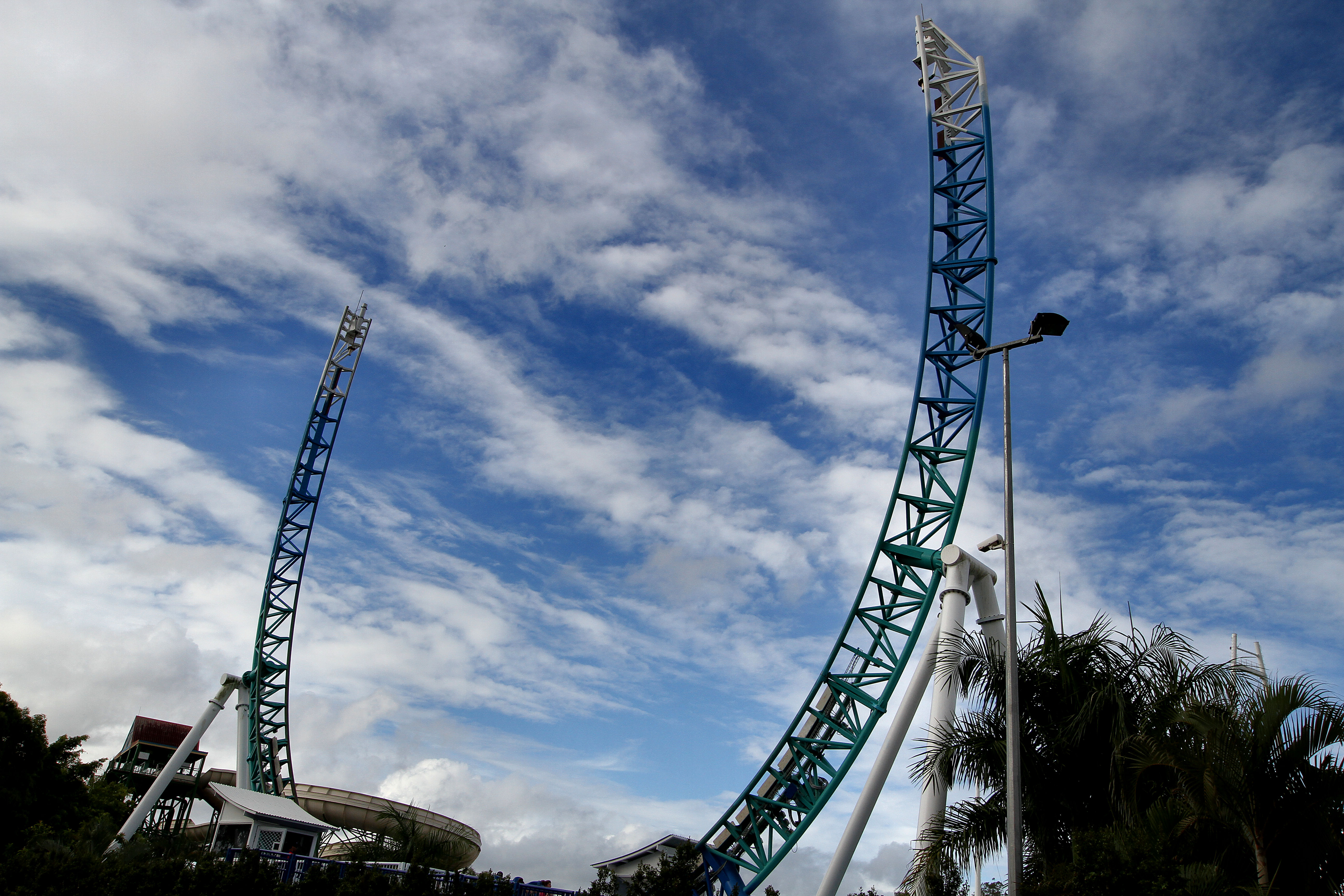 Gold Coast Australia